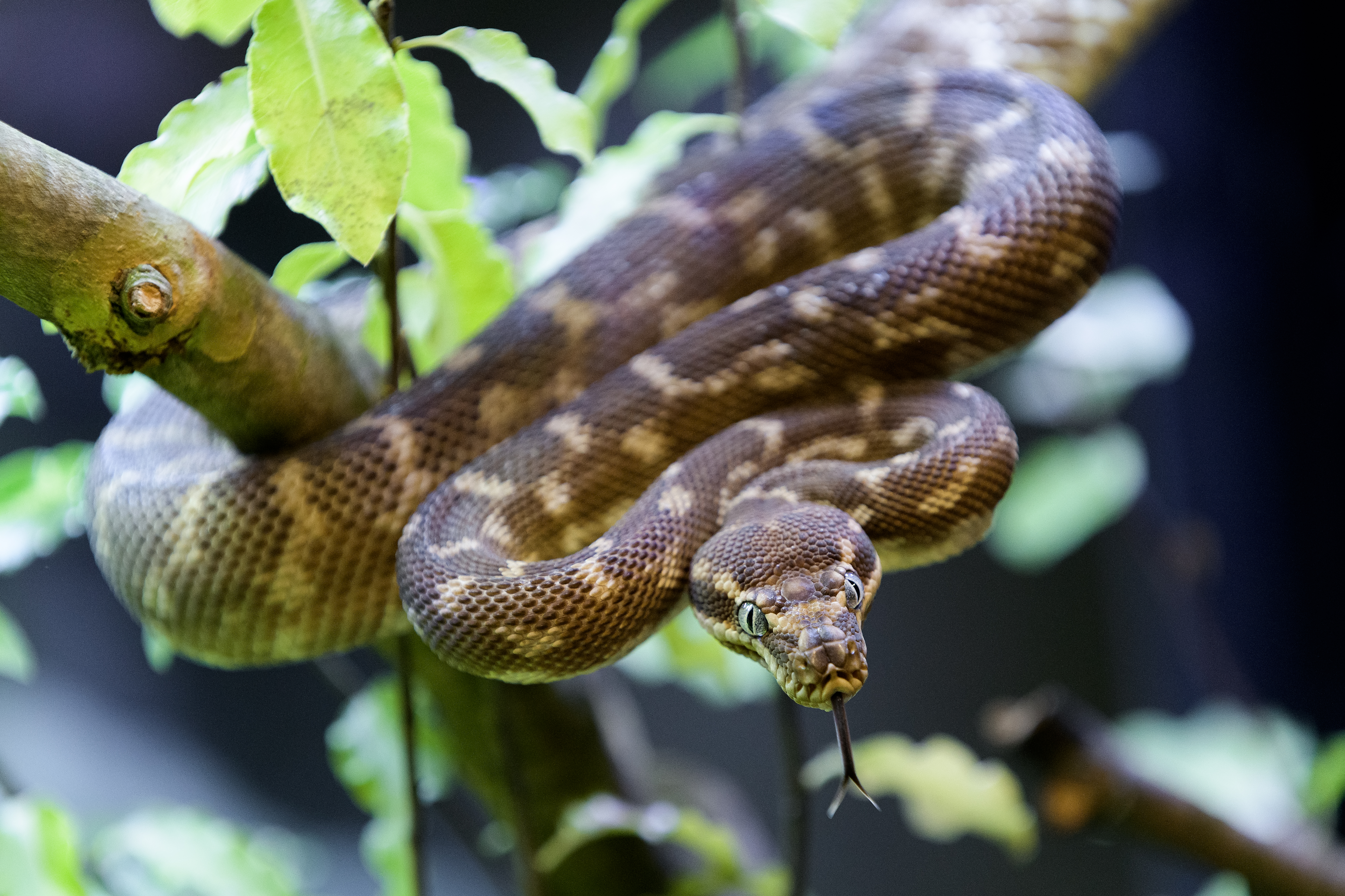 the rough-scaled python, Prague Zoo